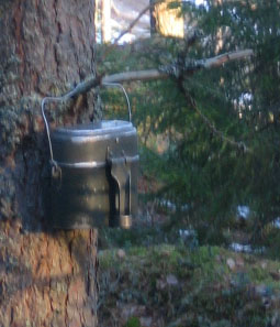 A metallic object used for storing foor/eating food from. Used in the Finnish army.